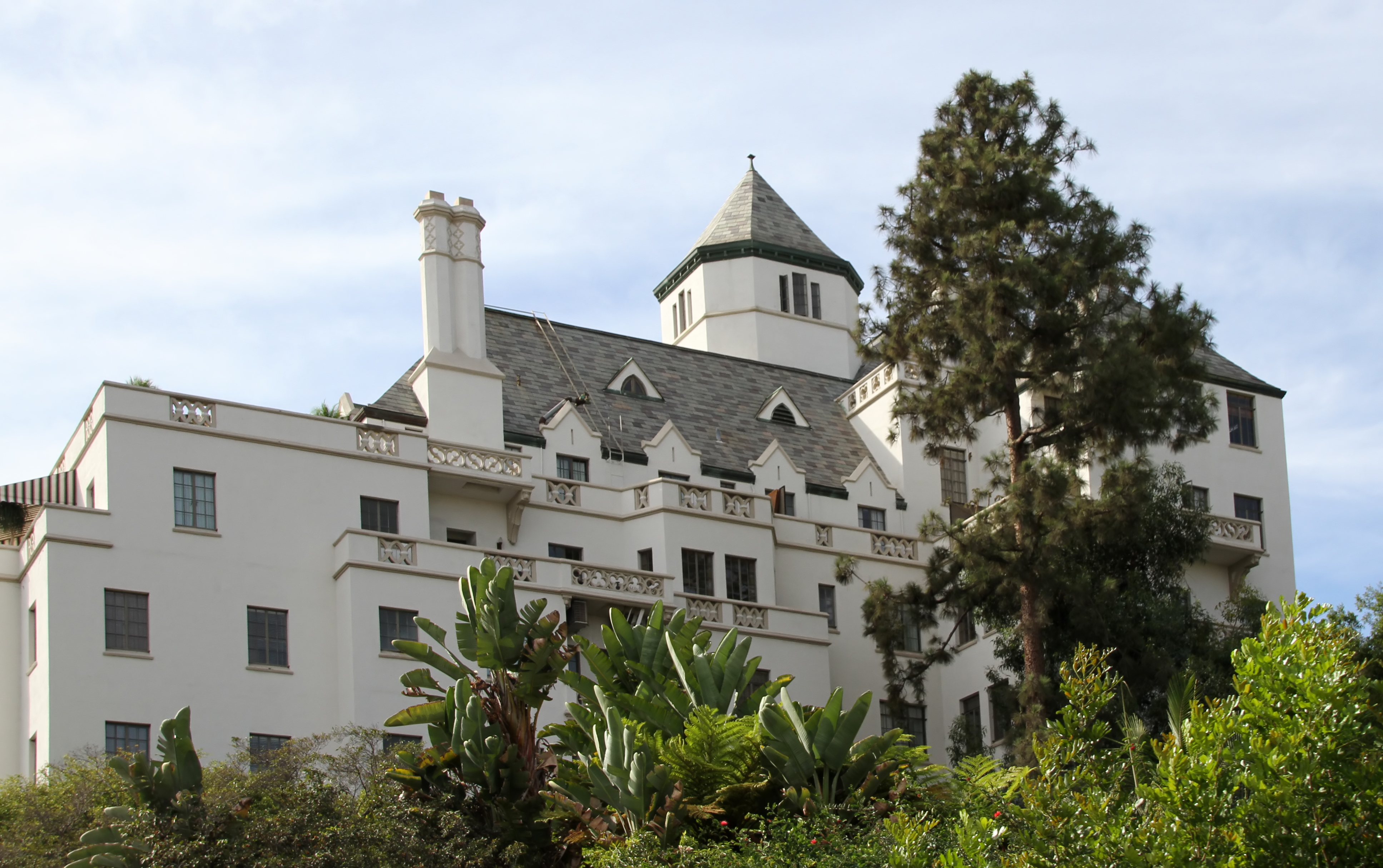 Chateau Marmont Hollywood